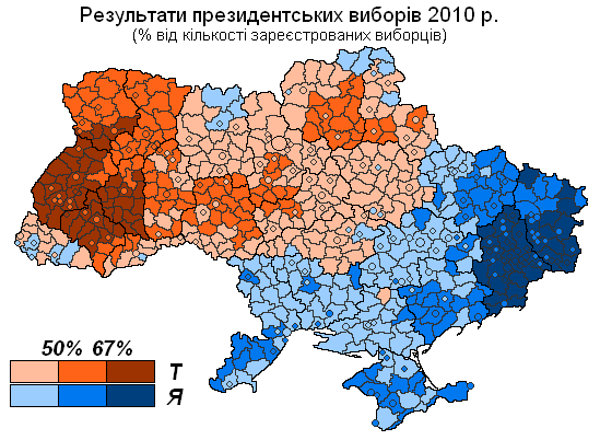 Votes for Yanukovych and Tymoshenko to the overall number of population with voting rights